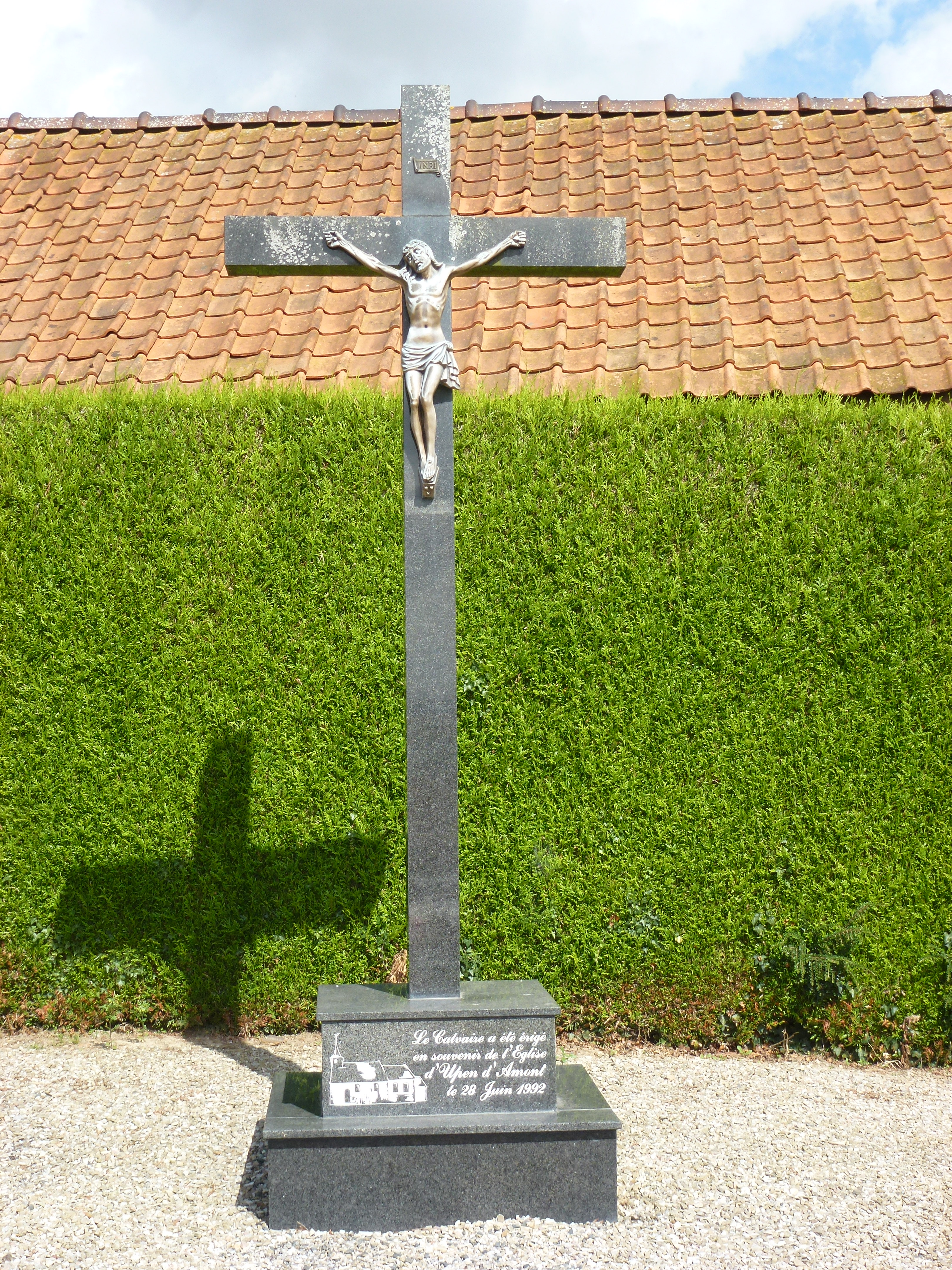 Delettes (Pas-de-Calais) Upon d'Amont, au cimetière, croix-souvenir de l'église disparue au cimetière